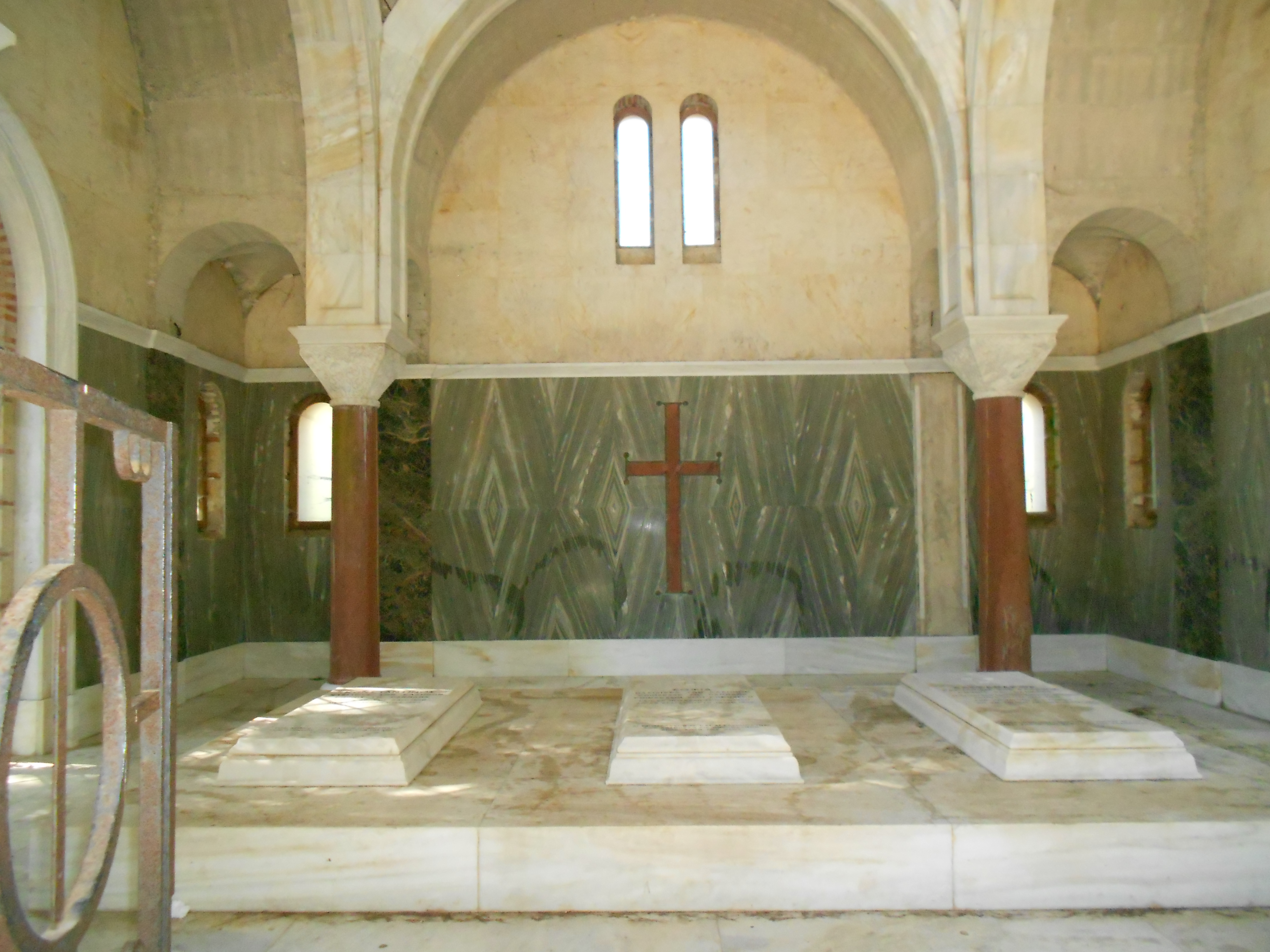 Graves of Constantine I of Greece, Sophia of Prussia and Alexander I of Greece in the Tatoi Palace mausoleum.